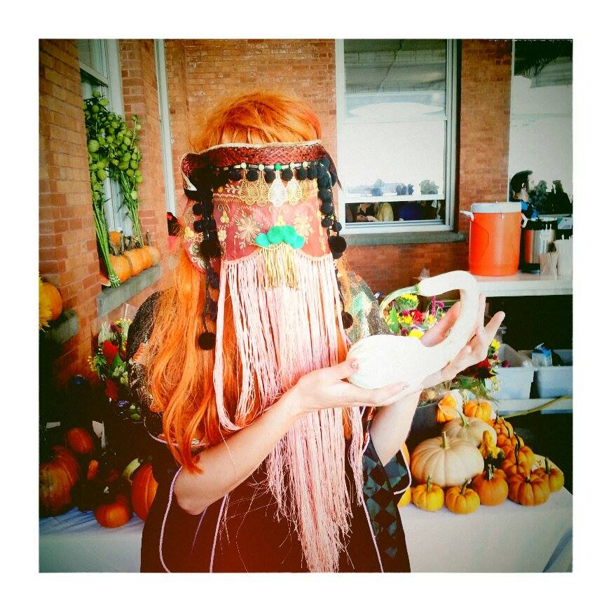 The Norwegian artist Lisa Charlotte Baudouin Lie in the costume she wore in her own performance/play "Skogsunderholdning"(=Forest entertainment). Mask by Damselfrau